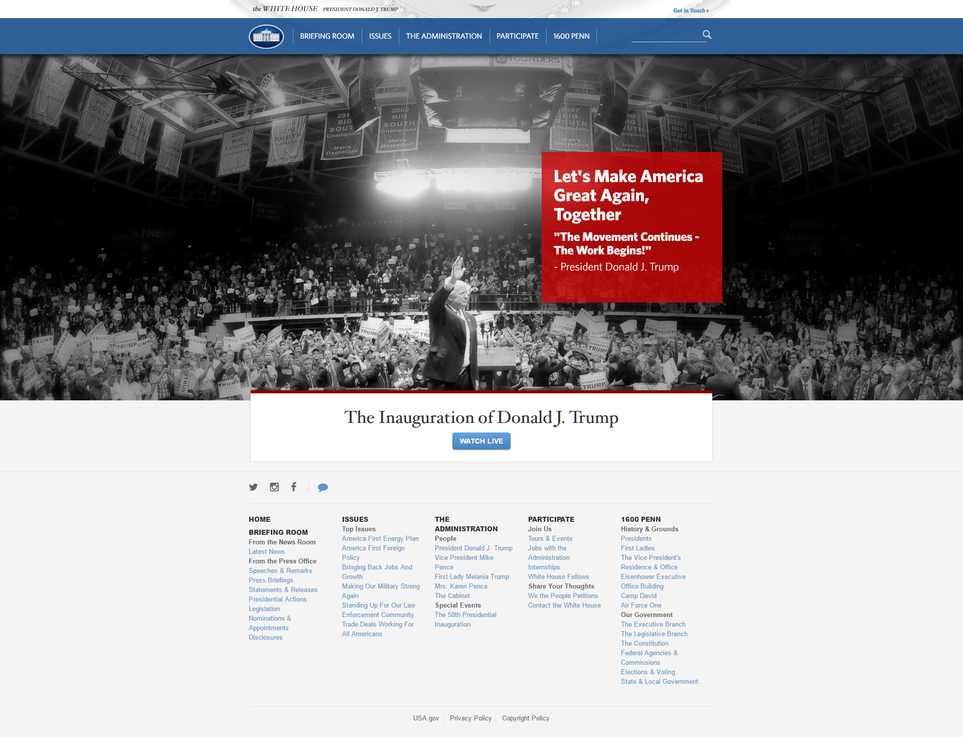 Screenshot of on January 20, 2017